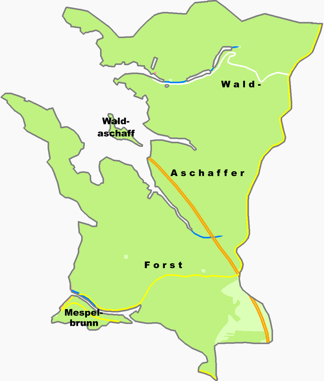 Unincorporated area Waldaschaffer Forst with the unincorporated Gemarkung Waldaschaff, unincorporated Gemarkung Mespelbrunn and unincorporated Gemarkung Waldaschaffer Forst. Grassland, Meadow Settlement area Body of water Forest Municipal border Freeway Main street Side street